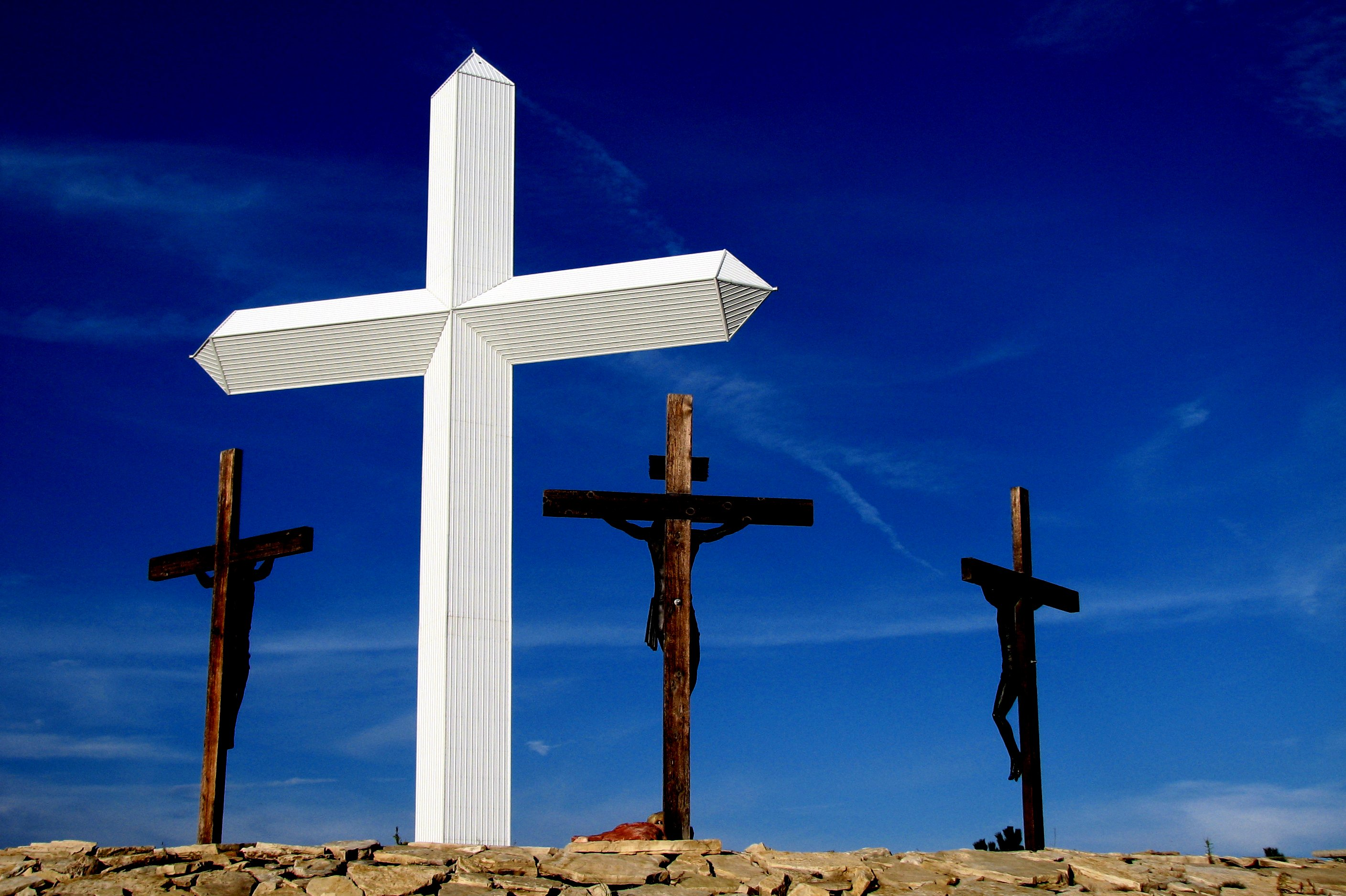 Jesus and the two thieves